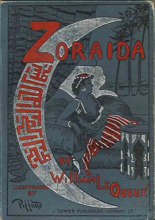 Zoraida (William le Queux) cover by Harold Hume Piffard